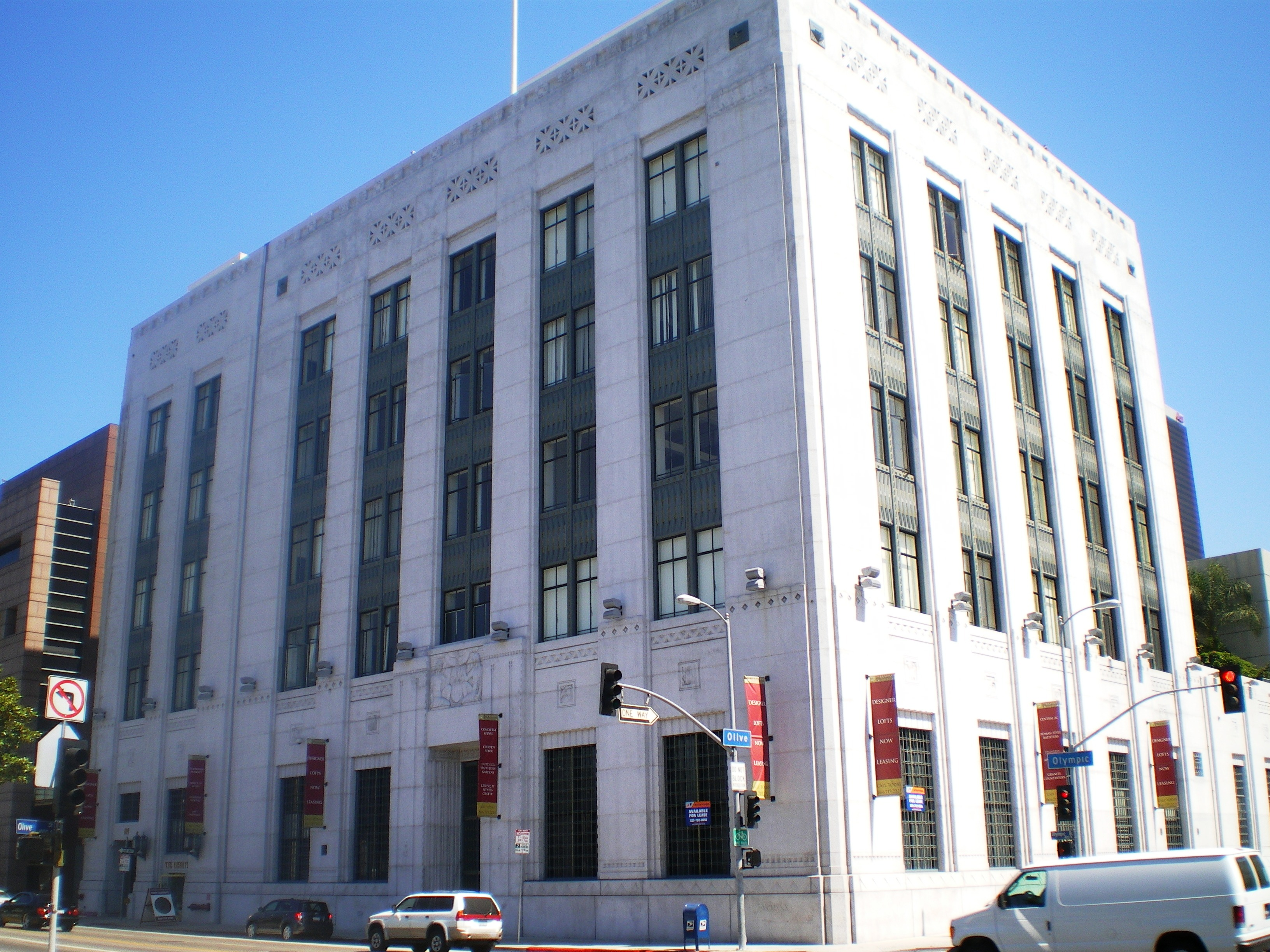 Federal Reserve Bank of San Francisco — Los Angeles Building in Los Angeles, Southern California, is located at 409 W. Olympic Boulevard, and is listed is on National Register of Historic Places in Los Angeles. The 1929 Federal Reserve Bank of San Francisco branch building was designed by John and Donald Parkinson in the Classical Moderne style.